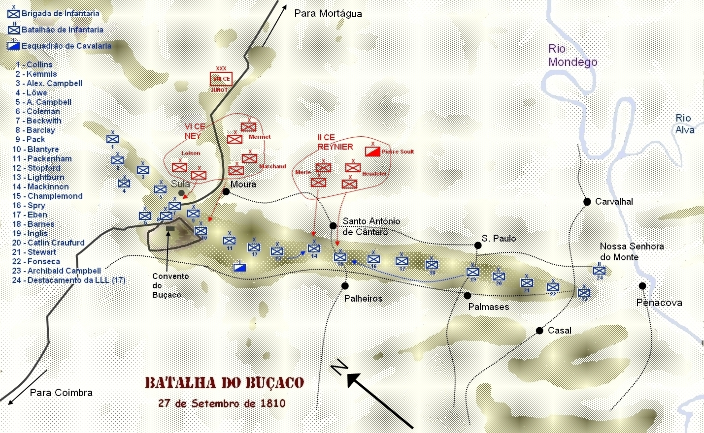 Map showing the locations of the units at the start of the Battle of Buçaco.